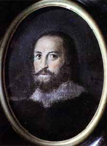 Like the artists of the Bogotana metropolis, Vázquez of Arce and Ceballos cultivates two genders profane: the portrait and still life. One example is Autorretrato - 1685 (self-portrait), personal style where most of his service is an art free from religious grounds.i de motifs religieux.